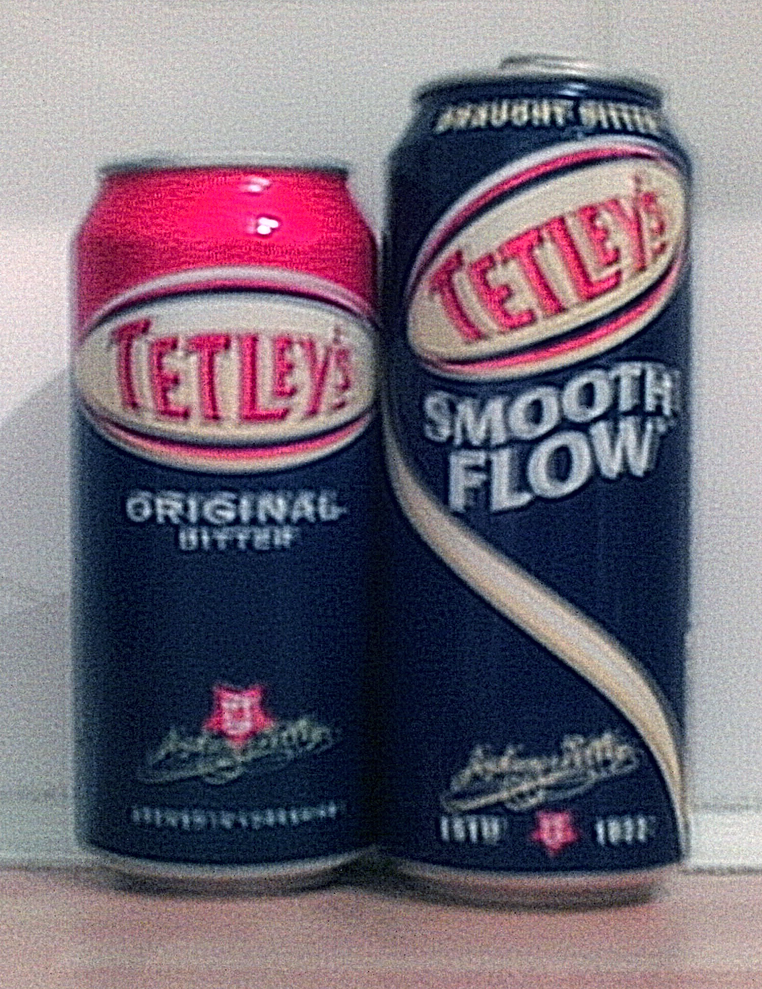 Tetley's Original (tinned version of Cask) (left), Smoothflow (right).